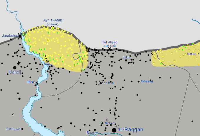 Map of military situation in the Tell Abyad region, in northern Syria, at the start of the Tell Abyad offensive (2015), on May 31, 2015.